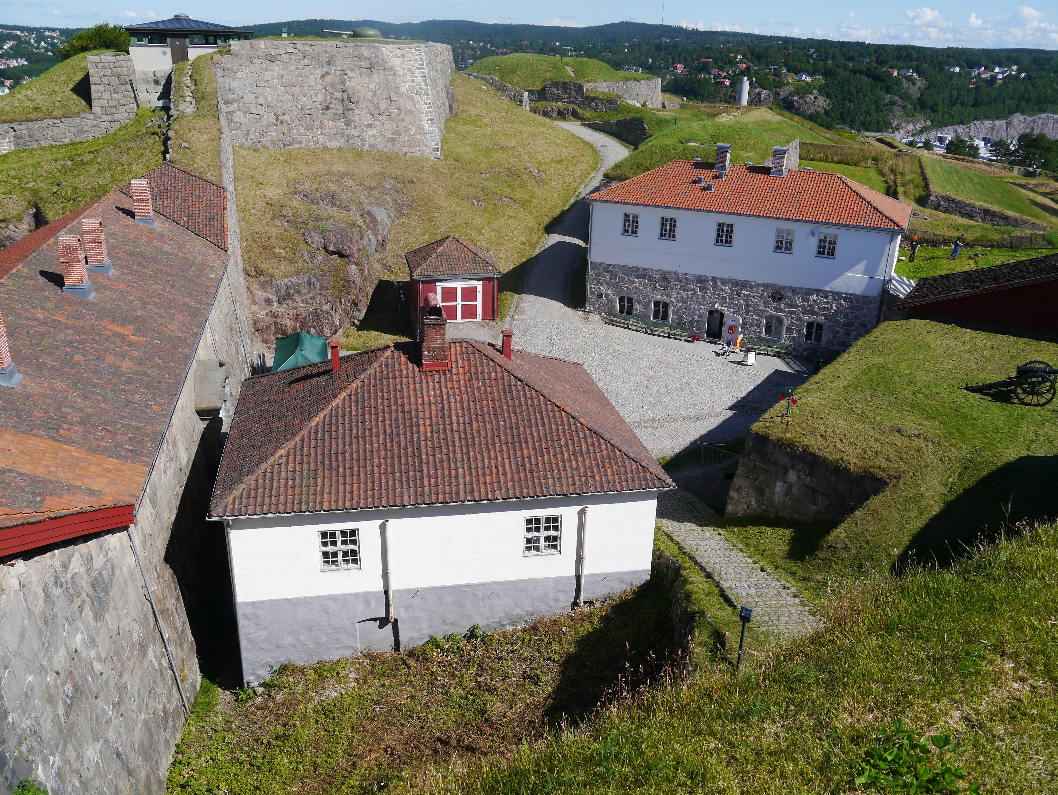 Fredriksten Fortress, Halden, Östfold County, Southern NorwayNorsk bokmål: Fredriksten festning i Halden. Ravelinbygningen sett fra Overdragen, Østre kurtine til venstre, smi- og arrestbygningen foran, og sprøytehuset midt i bildet.